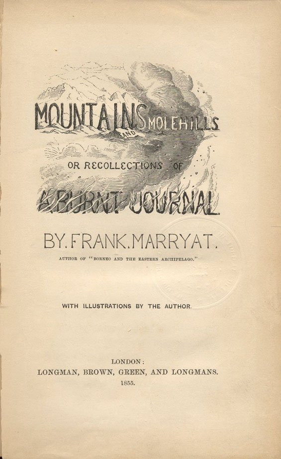 MARRYAT, Frank [Samuel Francis] (1826-1855). Mountains and Molehills; or, Recollections of a Burnt Journal...with Illustrations by the Author. London: Longman, Brown, Green and Longmans, 1855